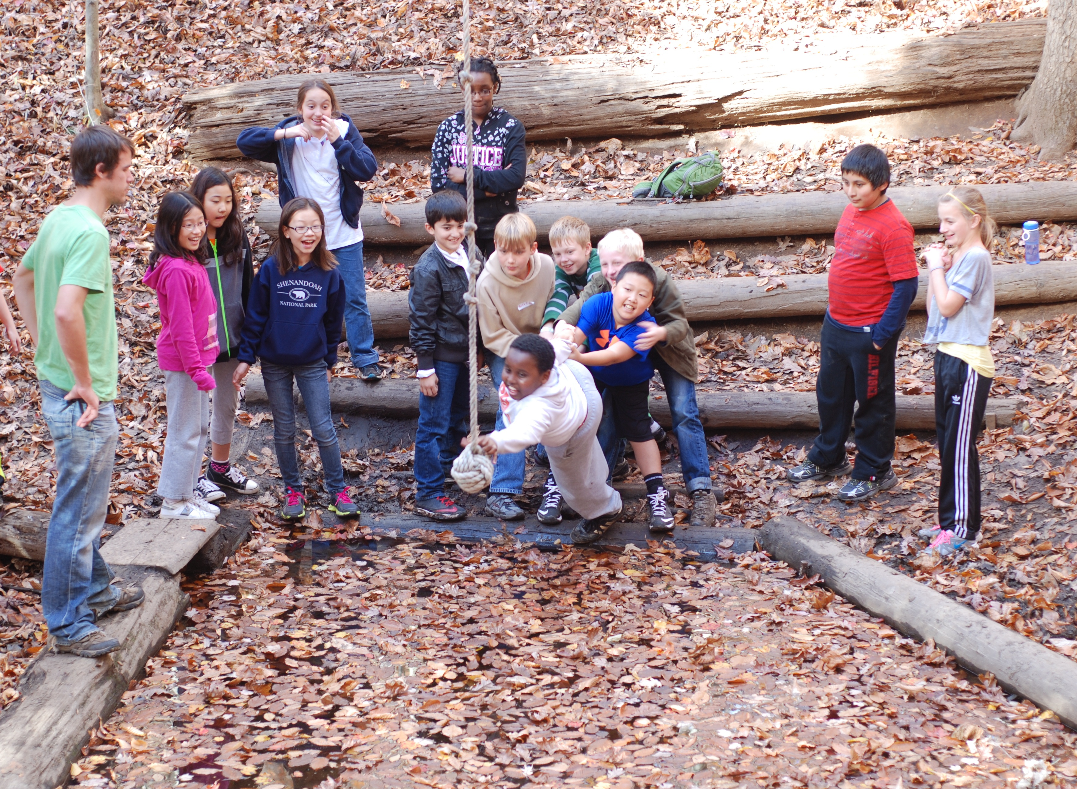 Hemlock Overlook Challenge Course: "Peanut Butter Pit" Challenge where kids had to get out of reach rope without using branches or throwing stuff at it. Than use the rope to swing across the "Peanut Butter Pit". As with other Hemlock Overlook challenges, the success was a result of a planning and executing a strategy that required working as a team.